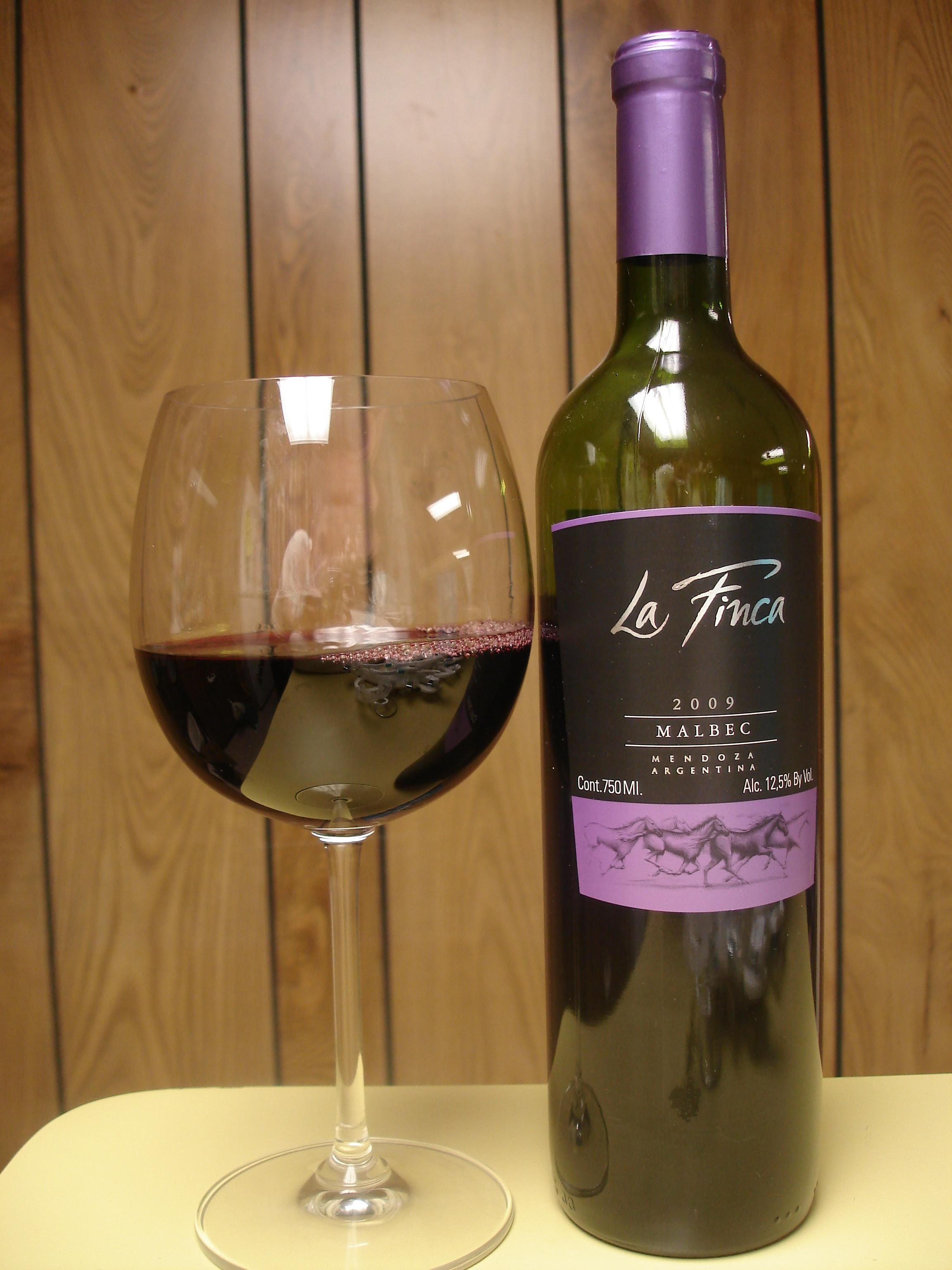 Malbec wine from Argentina